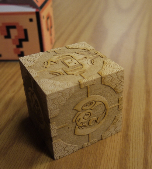 A photo of the "coin" used in the MIT Mystery Hunt 2011.